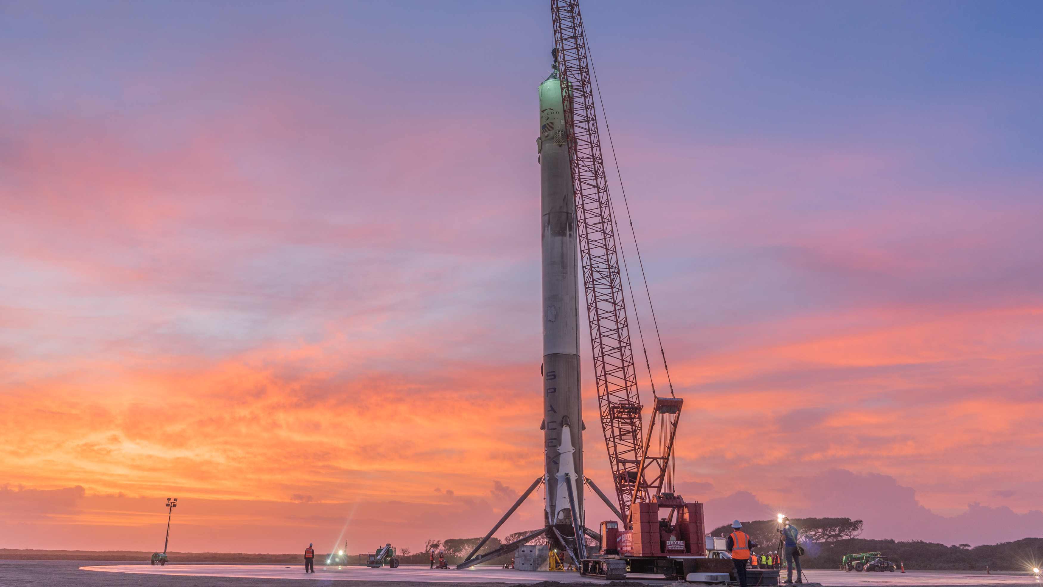 Falcon 9 First stage at Landing Zone 1